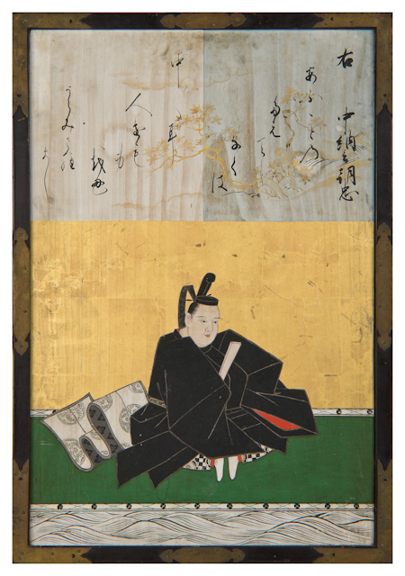 Sanjūrokkasen-gaku (Thirty-six Poetry Immortals framed picture) #25: Chūnagon Asatada (Fujiwara no Asatada)